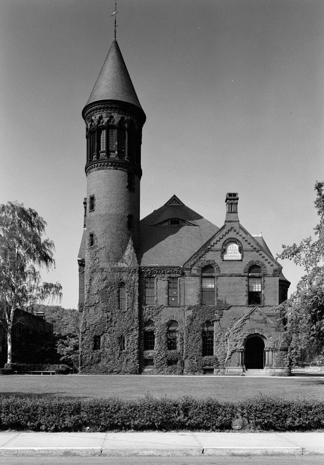 John Fox Slater Memorial Museum, 108 Crescent Street, Norwich (New London County , Connecticut) cropped This file comes from the Historic American Buildings Survey (HABS), Historic American Engineering Record (HAER) or Historic American Landscapes Survey (HALS). These are programs of the National Park Service established for the purpose of documenting historic places. Records consist of measured drawings, archival photographs, and written reports. When reusing please credit: Library of Congress, Prints & Photographs Division, CONN,6-NOR,4-1 This tag does not indicate the copyright status of the attached work. A normal copyright tag is still required. See Commons:Licensing. This work is in the public domain in the United States because it is a work prepared by an officer or employee of the United States Government as part of that person’s official duties under the terms of Title 17, Chapter 1, Section 105 of the US Code. Note: This only applies to original works of the Federal Government and not to the work of any individual U.S. state, territory, commonwealth, county, municipality, or any other subdivision. This template also does not apply to postage stamp designs published by the United States Postal Service since 1978. (See § 313.6(C)(1) of Compendium of U.S. Copyright Office Practices). It also does not apply to certain US coins; see The US Mint Terms of Use. This file has been identified as being free of known restrictions under copyright law, including all related and neighboring rights. Object location41° 32′ 01″ N, 72° 04′ 55″ W